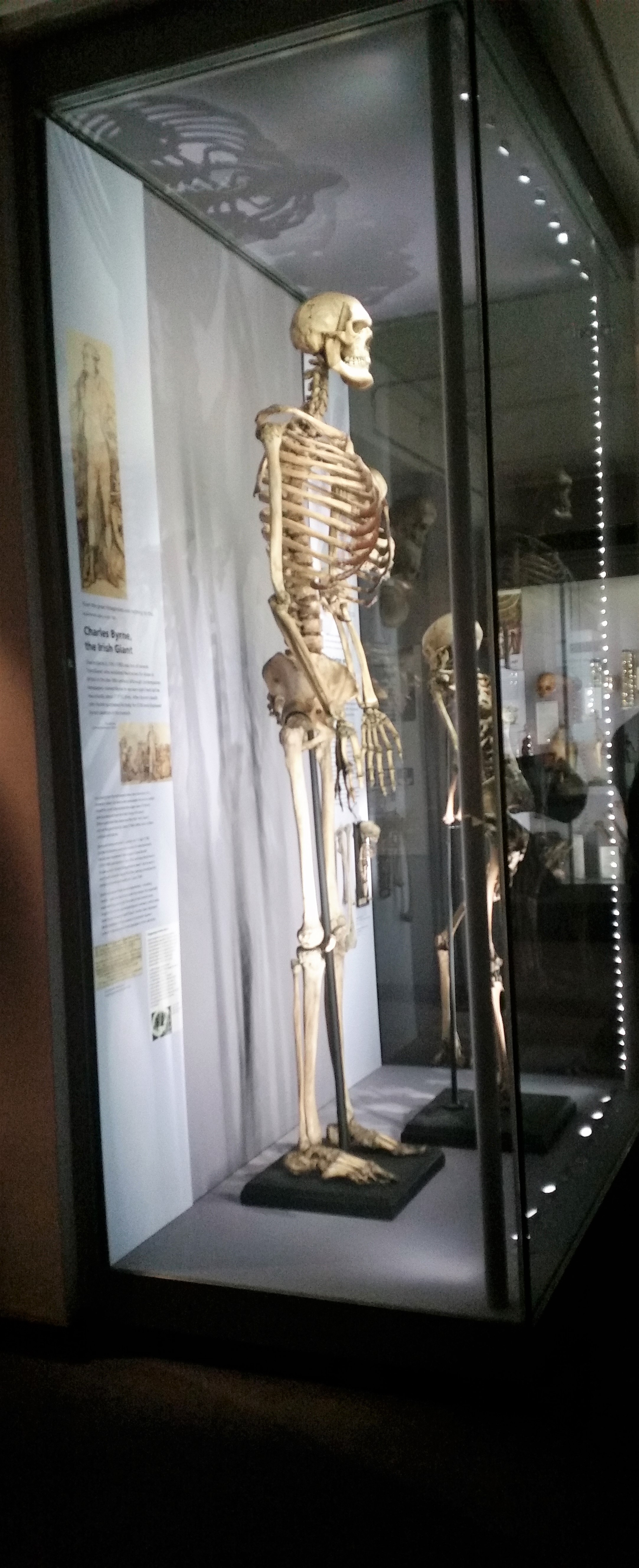 The skeleton of Charles Byrne (1761–1783) the Irish Giant. The specimen is from the Hunterian Museum at the Royal College of Surgeons of England.